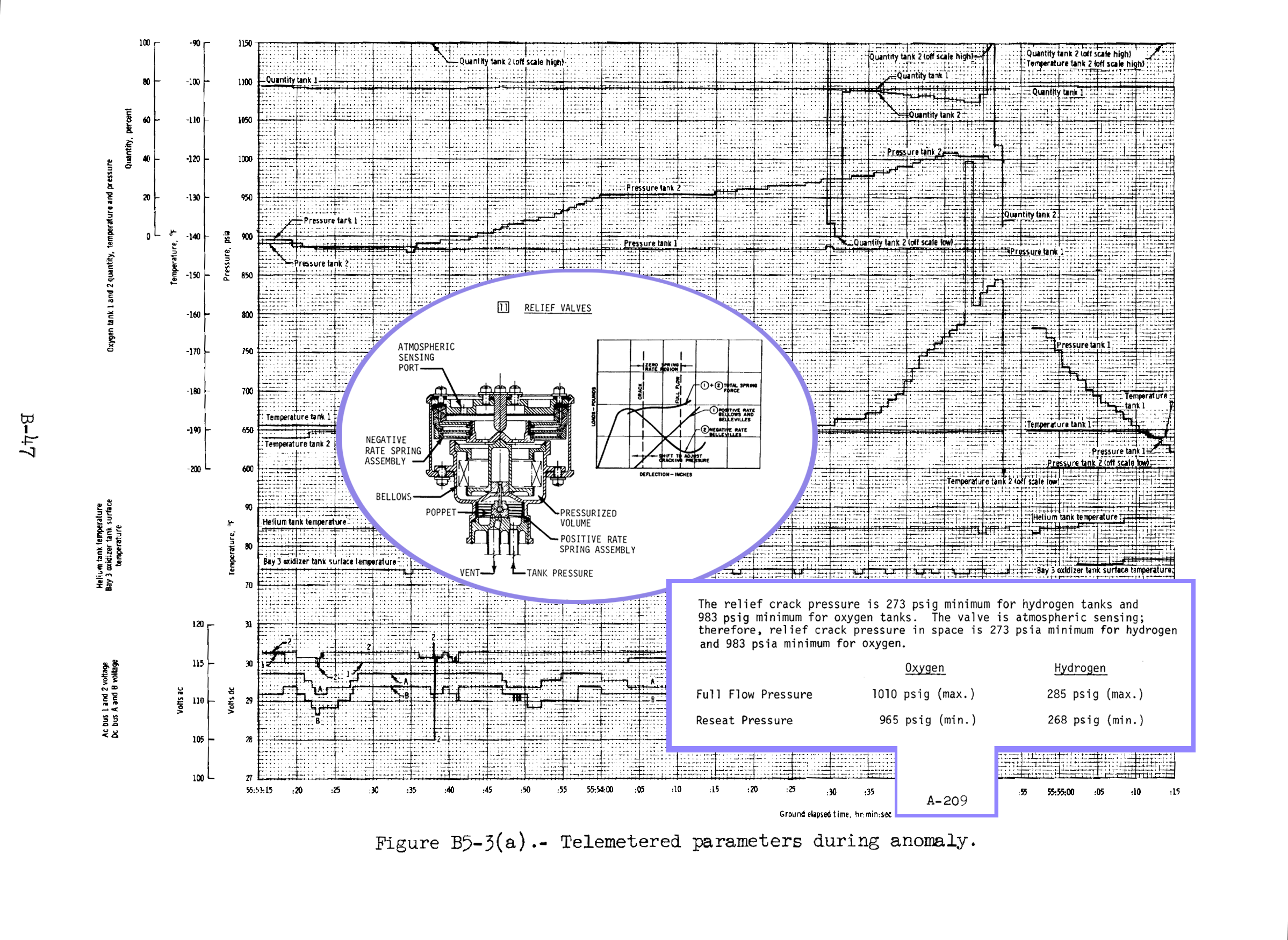 Telemetered parameters during the Apollo 13 oxygen tank rupture anomaly, with inset of pressure relief valve hardware is taken from Appendix A, page A-209 of the Cortright Report. (This graph without the inset is available as File:TankRuptureParametersGraph - Apollo13 CortrightReport pg B-47.png) The data in this graph shows how the engineered safety mechanisms performed per their design function to mitigate an overpressure situation in order to prevent the tank from exploding. The official investigators do not refer to the incident as an explosion. In their report, it is referred to as a tank rupture. (On the same Apollo 13 mission, a separate tank overpressure situation happened with the lunar module supercritical helium tank. Mission Control made the decision to not do a burn in order to relieve this pressure but instead deliberately let this tank blow, relying on its overpressure safety mechanisms to work per design. After rounding the Moon, this 'SHe' tank blew safely with minor impact on the mission. Lovell had to re-establish the passive thermal roll.) Excerpt from Appendix B, page B-39: 55:53:20 Oxygen tank no. 2 fans turned on. ... 55:53:36 Oxygen tank no. 2 pressure begins rise lasting for 24 seconds. ... 55:54:00 Oxygen tank no. 2 pressure rise ends at a pressure of 953.8 psia. 55:54:15 Oxygen tank no. 2 pressure begins to rise. [again] ... 55:54:45 Oxygen tank no. 2 pressure reaches maximum value of 1008.3 psia. ... 55:54:52.763 Last telemetered pressure from oxygen tank no. 2 before telemetry loss is 995.7 psia.